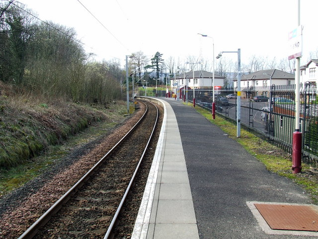 Inverkip Railway Station